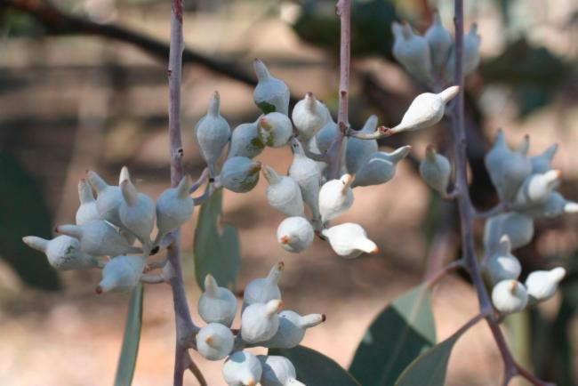 Flower buds of Eucalyptus orgadophila near Centenary Drive, Muckadilla, Queensland